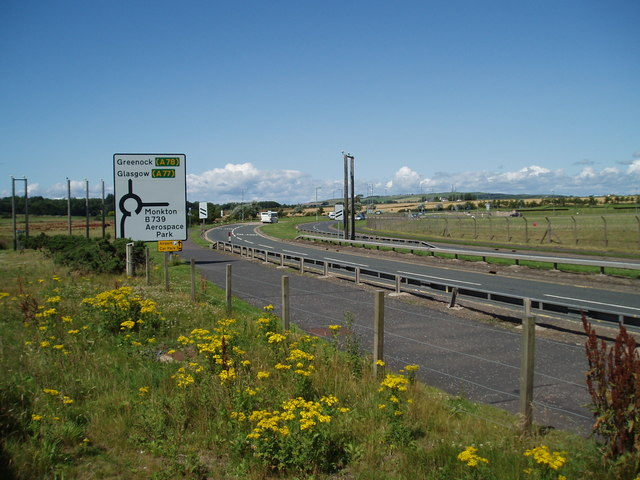 A79 Road Sign Road sign for A79 at roundabout with B739 viewed from the South. The poles in the picture are the landing lights for Prestwick International Airport. 25th July 2009 3.15p.m.